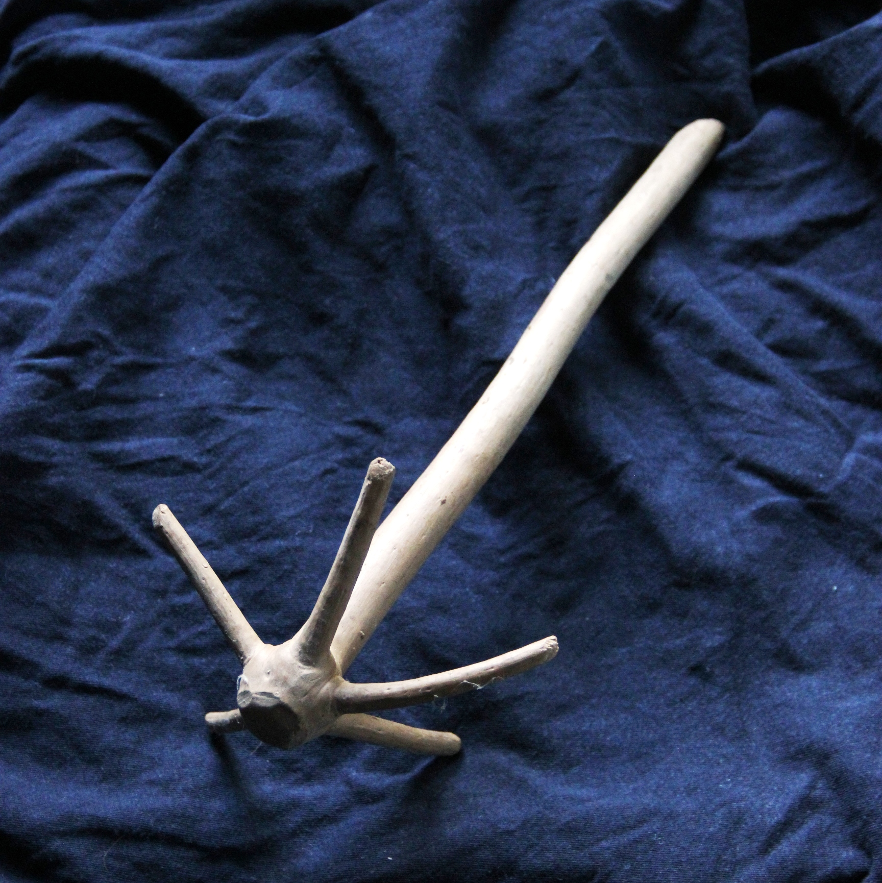 A kind of mixer